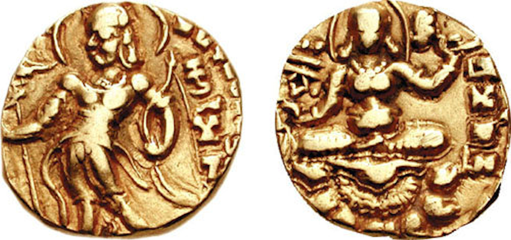 Kumaragupta I Circa 414-455 CE Archer type